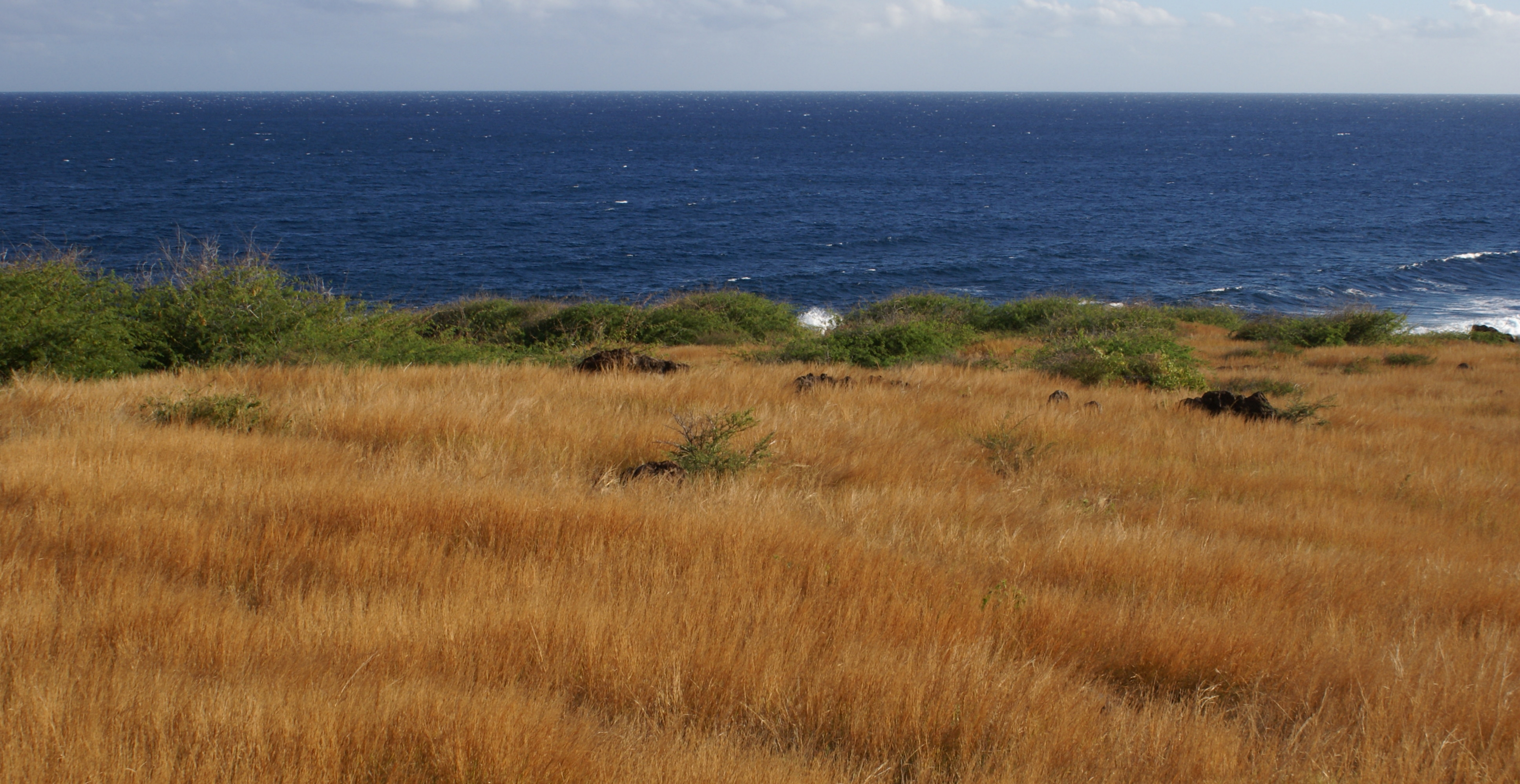 Heteropogon contortus savana on the western shore of Réunion island